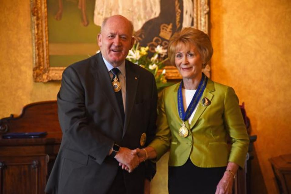 Peter Cosgrove, the Governor-General of Australia, investing Kerry Sanderson, the Governor of Western Australia, as a Companion of the Order of Australia.